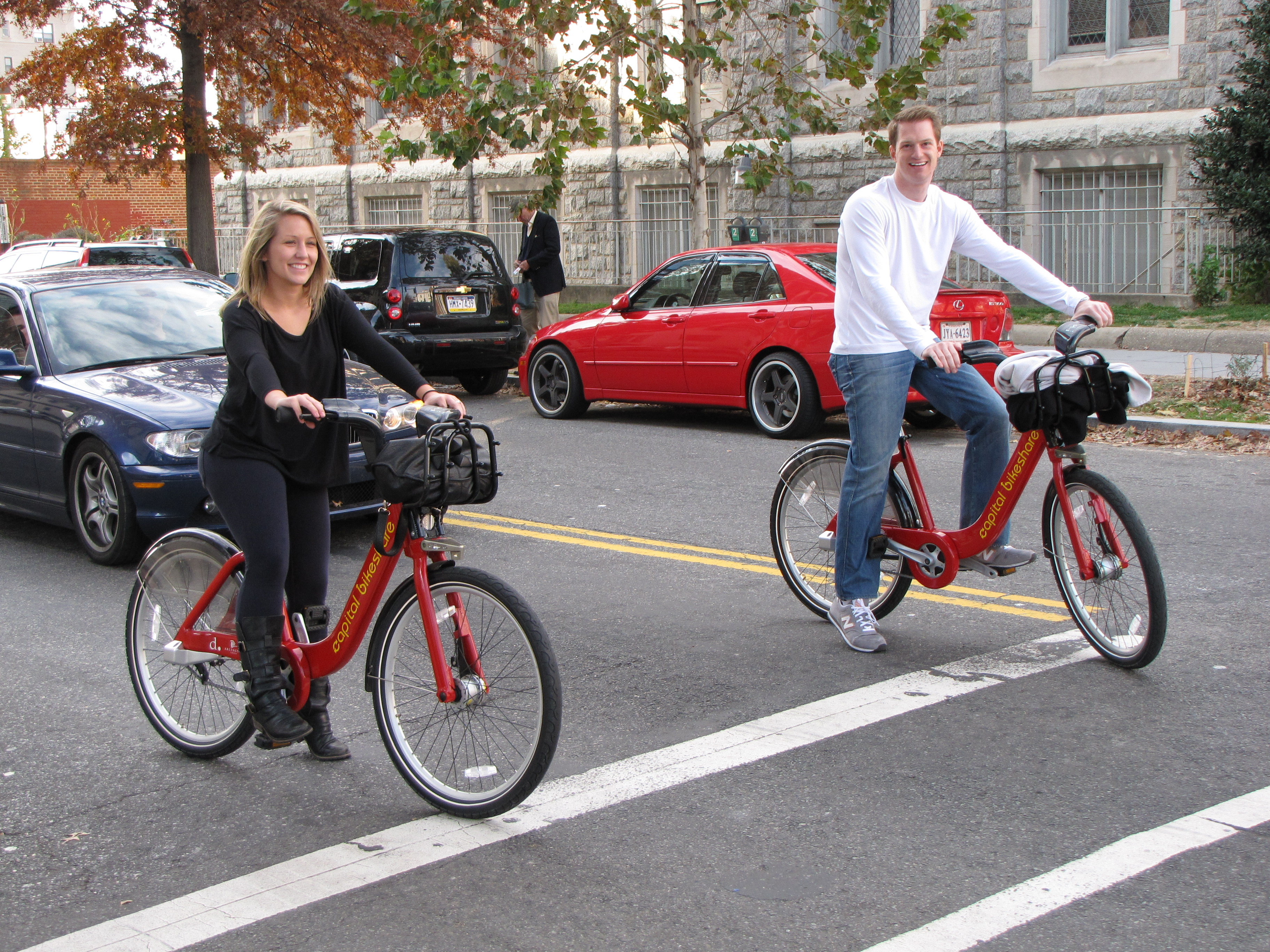 Two people ride Capital Bikeshare bicycles in the Dupont Circle neighborhood of Washington DC.